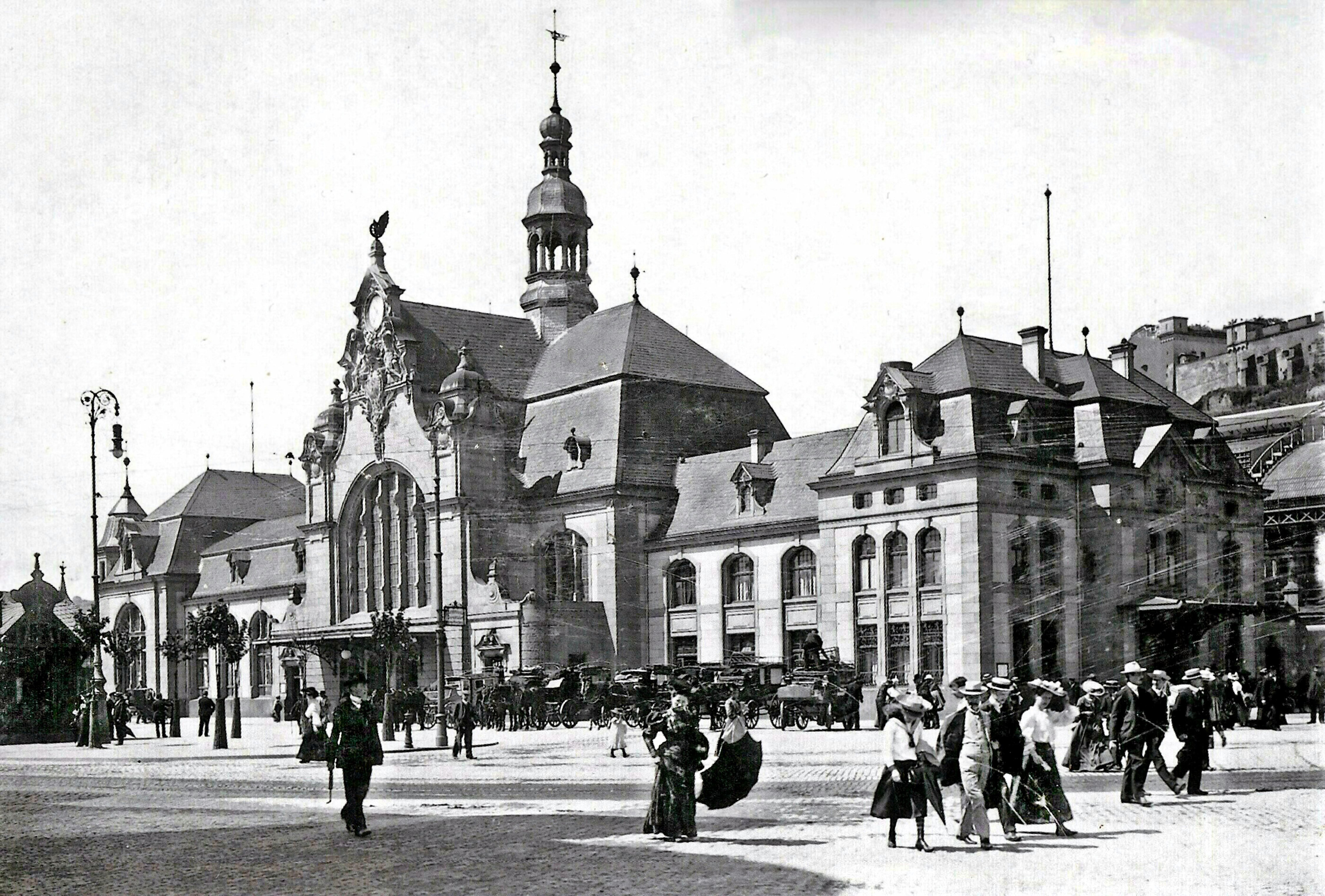 Main Station in Koblenz